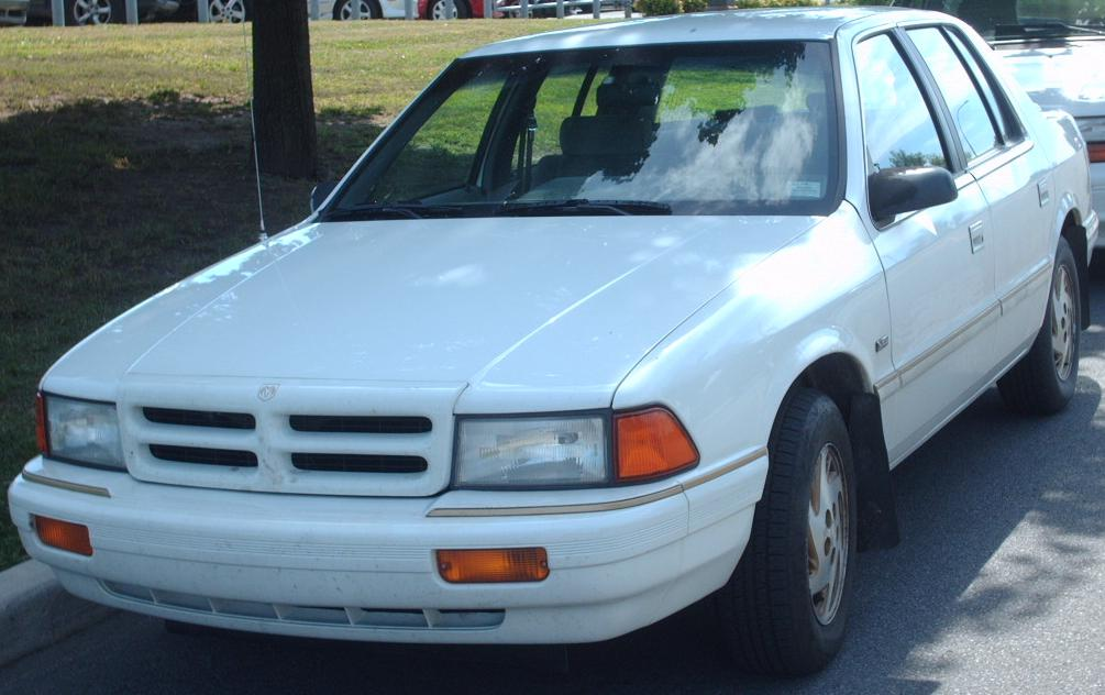 1994-1995 Dodge Spirit photographed in Montreal, Quebec, Canada.